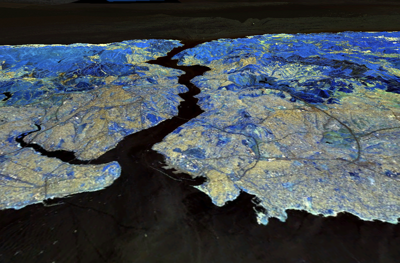 Landsat7 Satellite Image of Istanbul